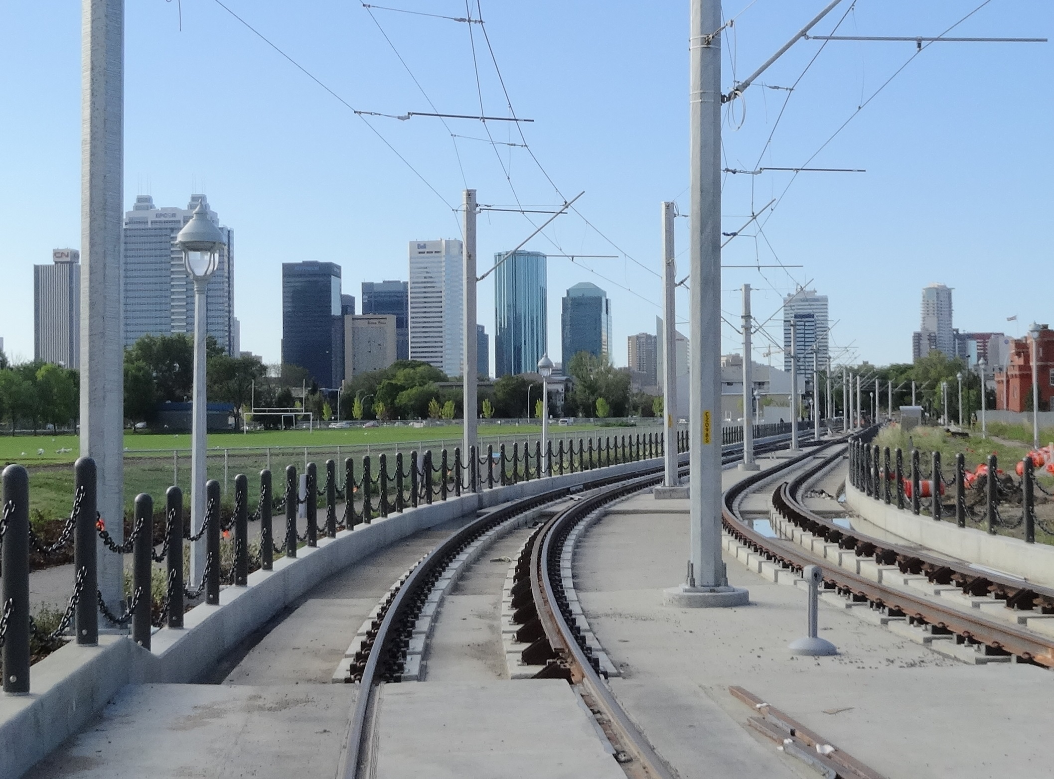 Metro Line approaching downtown Edmonton, 2013